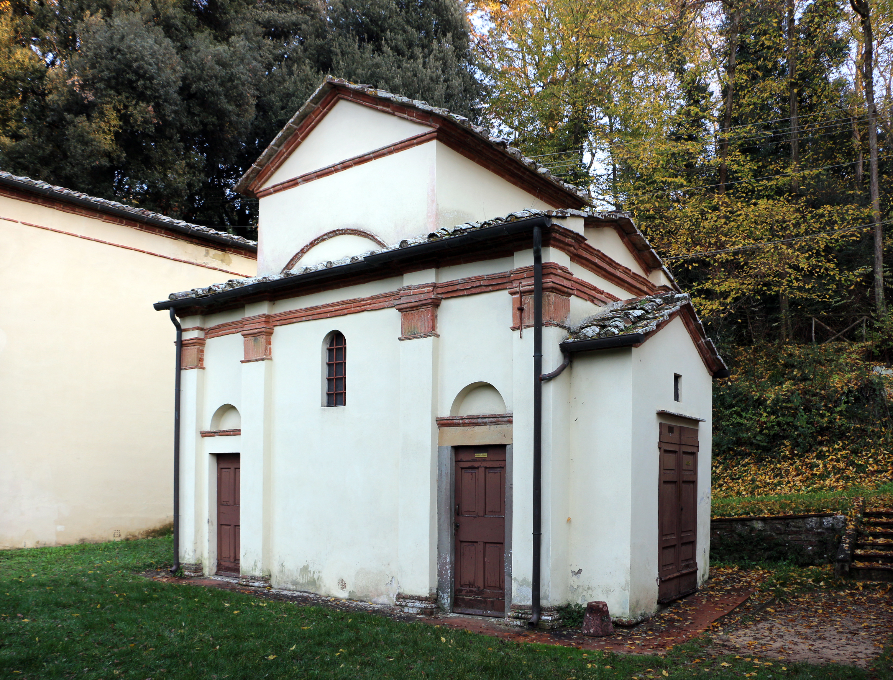 San Vivaldo Sacro Monte